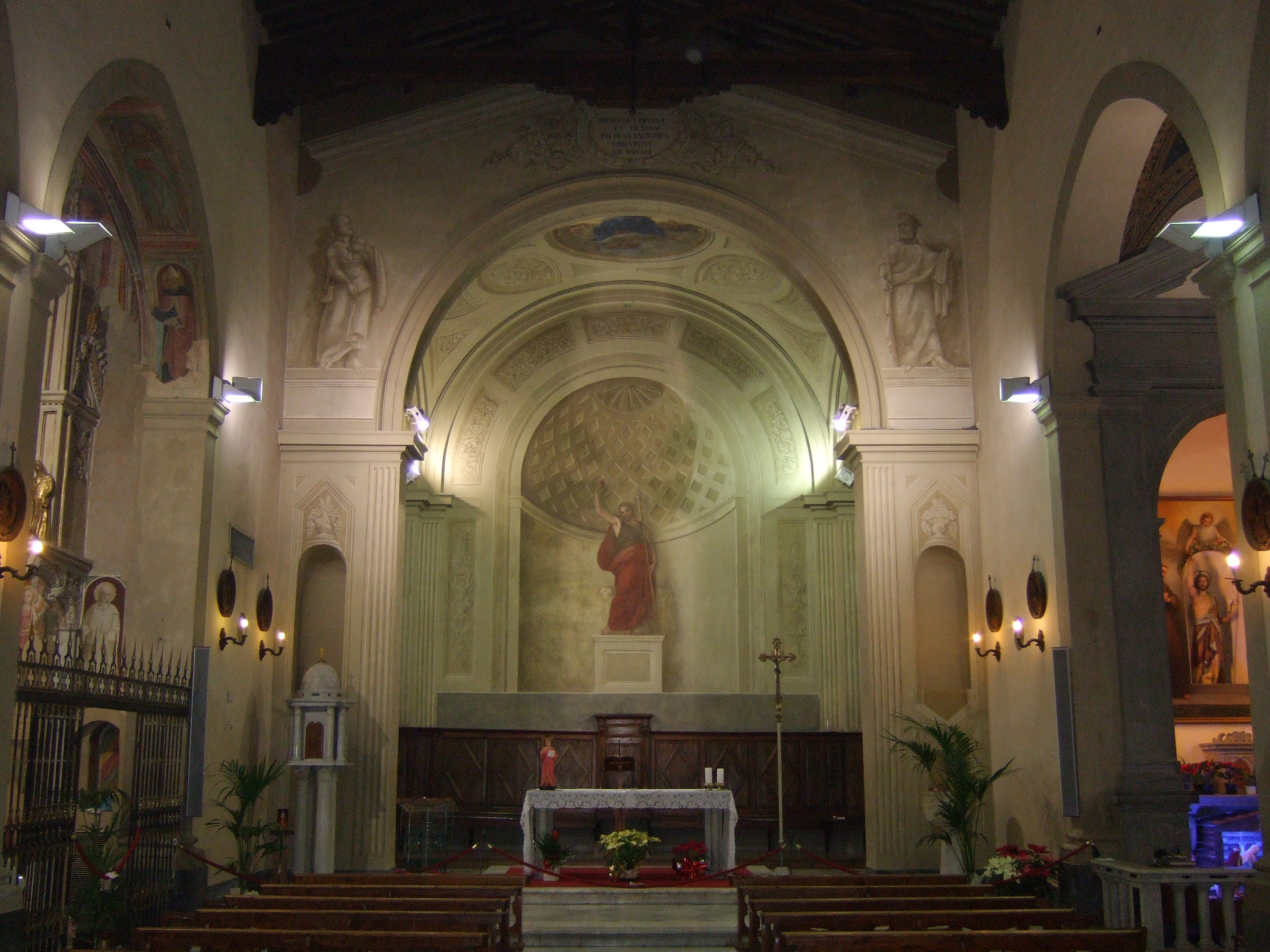 Santuario Madre dei Bimbi Cigoli interno